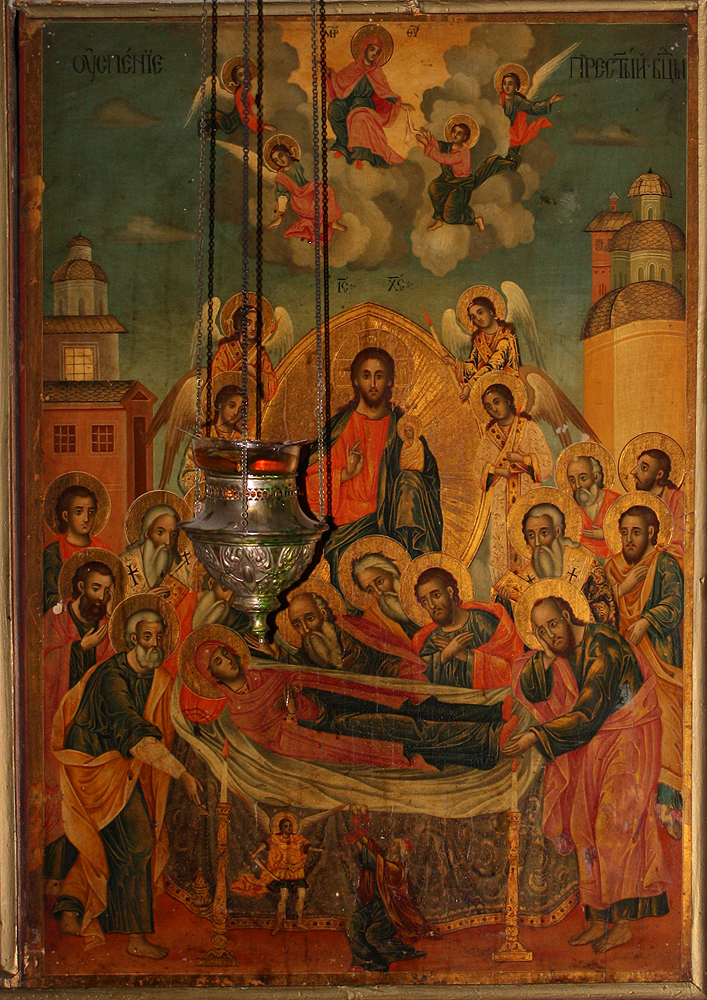 Dormition of the Theotokos Icon from Kostenets church of Archangel Michael, Bulgaria